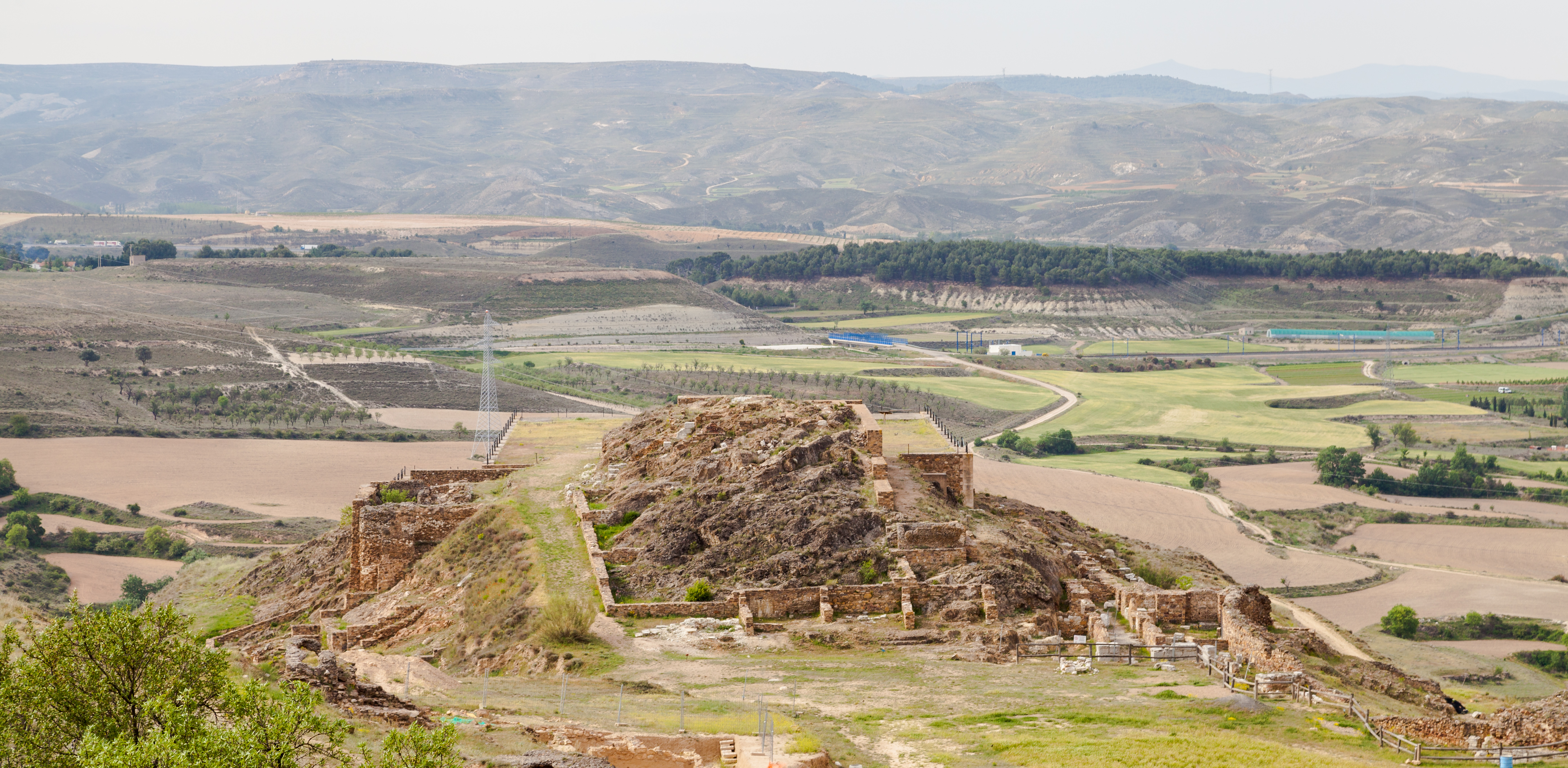 Ruins of the ancient roman city of Bilbilis, Calatayud, Spain